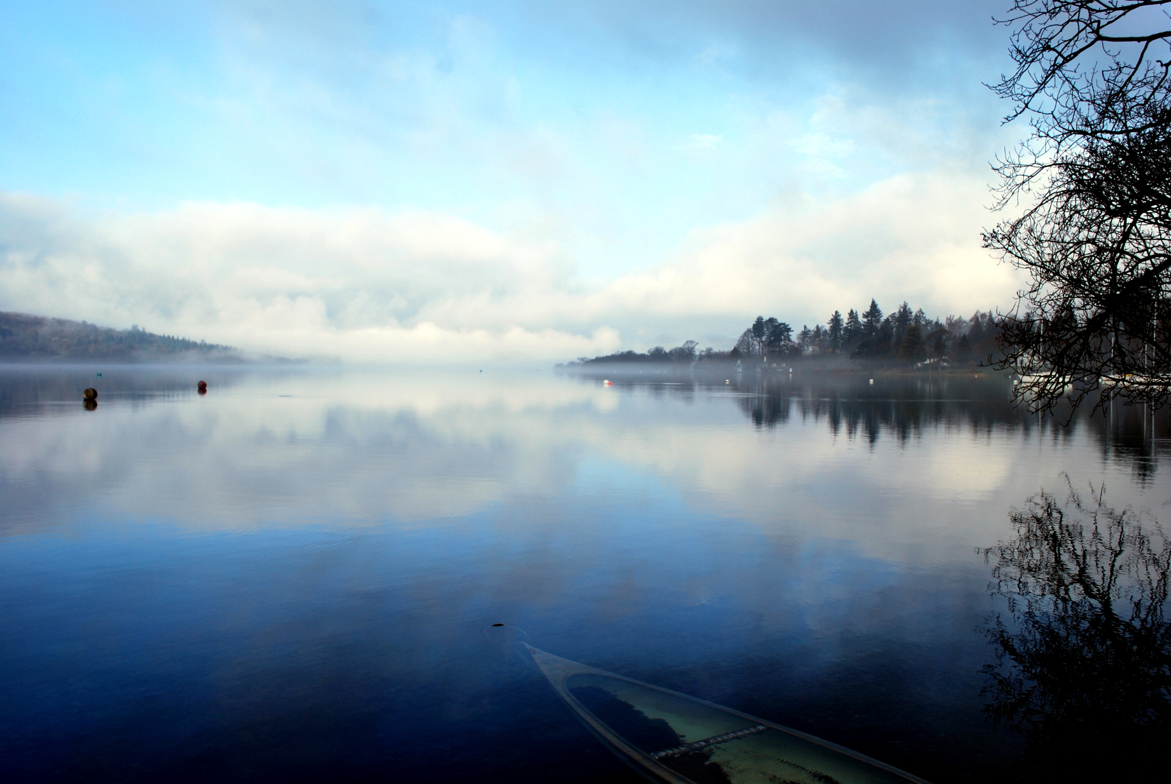 Windermere in February 2011